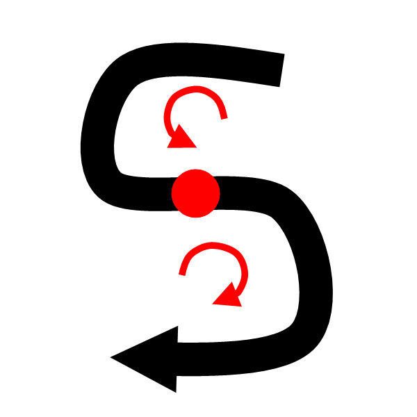 1rst order reversal point